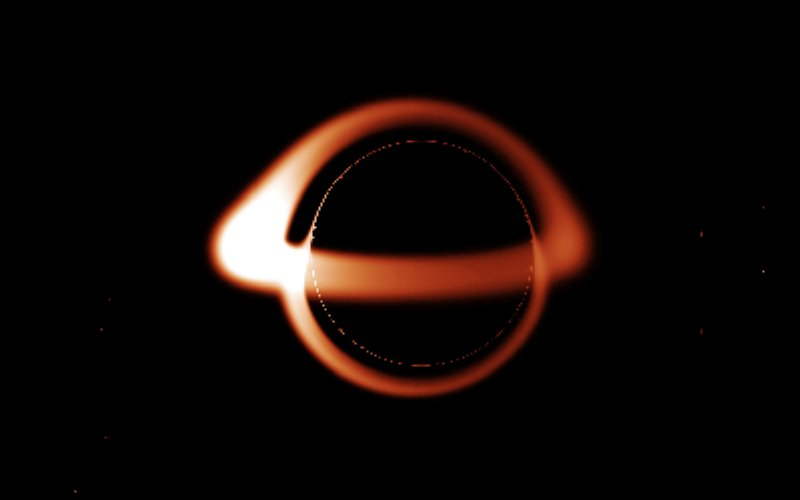 Predicted appearance of black hole with toroidal ring of ionised matter.